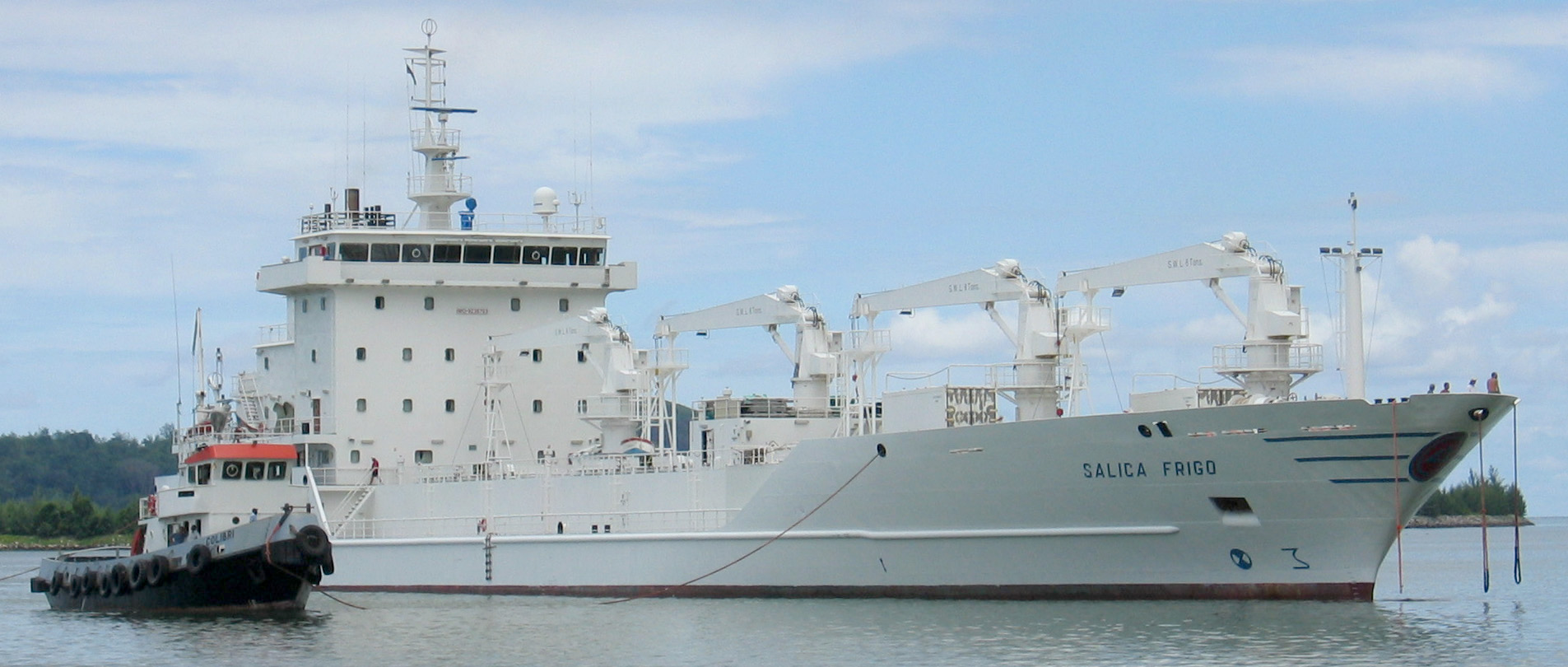 Cropped version of Image:Salica Frigo.jpg Reefer vessel